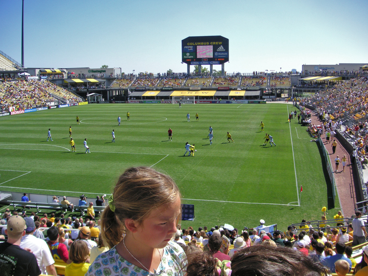 Columbus Crew vs. Colorado Rapids.